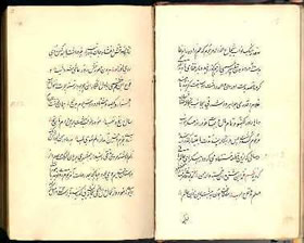 Scan of Masir Talib fi Bilad Afranji (Travels of Mirza Abu Taleb Khan) by Mirza Abu Taleb Khan. Date uncertain - pre-1814